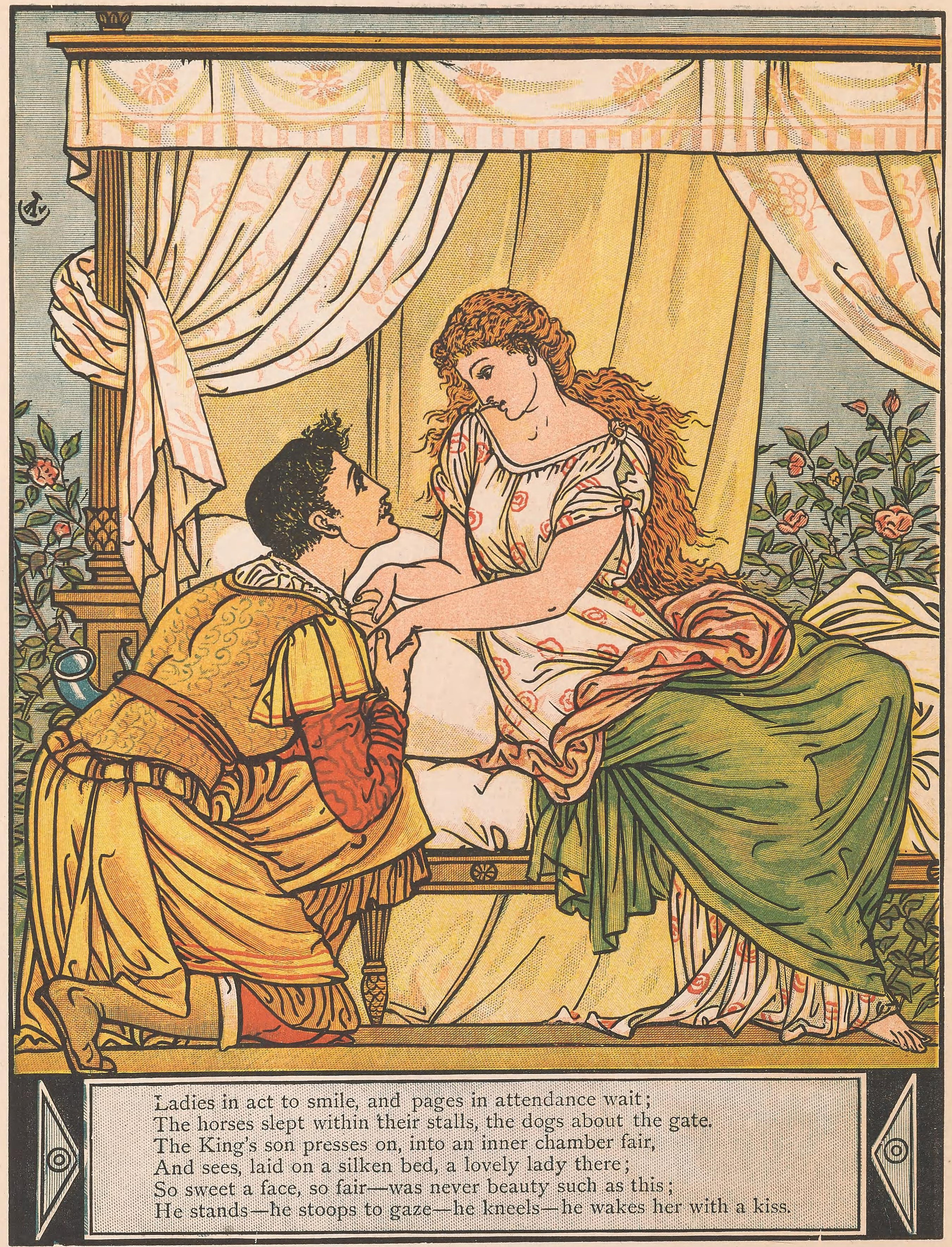 From The Sleeping Beauty (1876), later republished in The Sleeping Beauty Picture Book (1911).